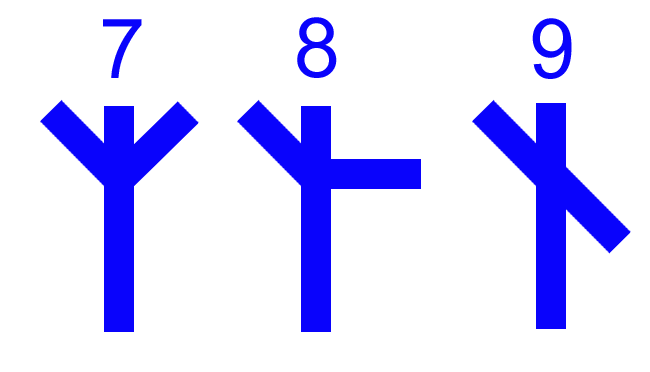 Code used by the Prussian Optical Telegraph between Berlin and Koblenz. Combination of two Arms